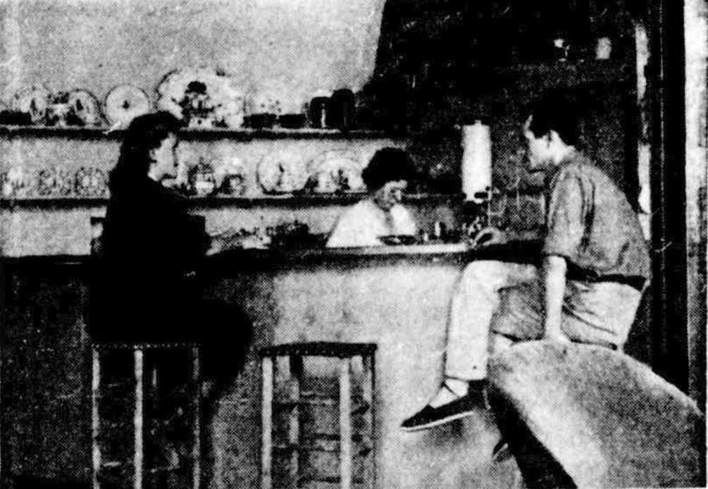 Artist Moya Dyring in her Paris apartment behind the counter-bar cooking a meal for another Australian artist, David Strachan, and French painter Madelaine Mare.